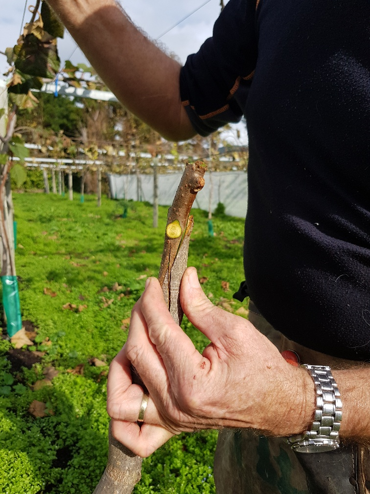 Grafting kiwifruit scion onto rootstock